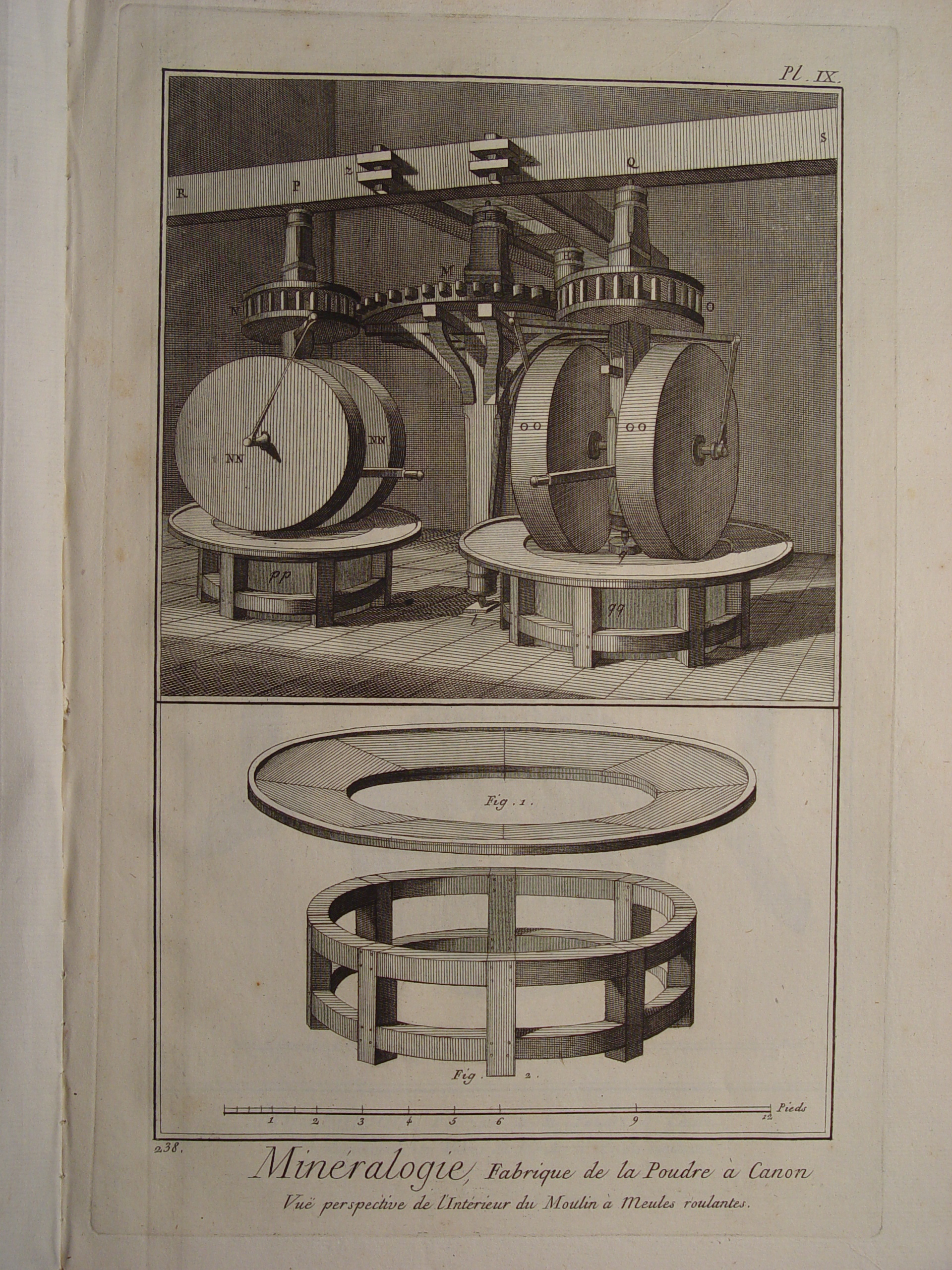 A photograph of a page out of Encyclopédie, published by Denis Diderot, showing one phase of the operation of making gun-powder taking place in an 18th Century powder-mill. This publication would probably been available to The American Philosophical Society prior to the American Revolution. This photo is from an original page which is in my personal collection. This photo meets the fair use criteria as this publication was in public domain for over two hundred years.Bigjoe5216 05:00, 7 May 2008 (UTC)